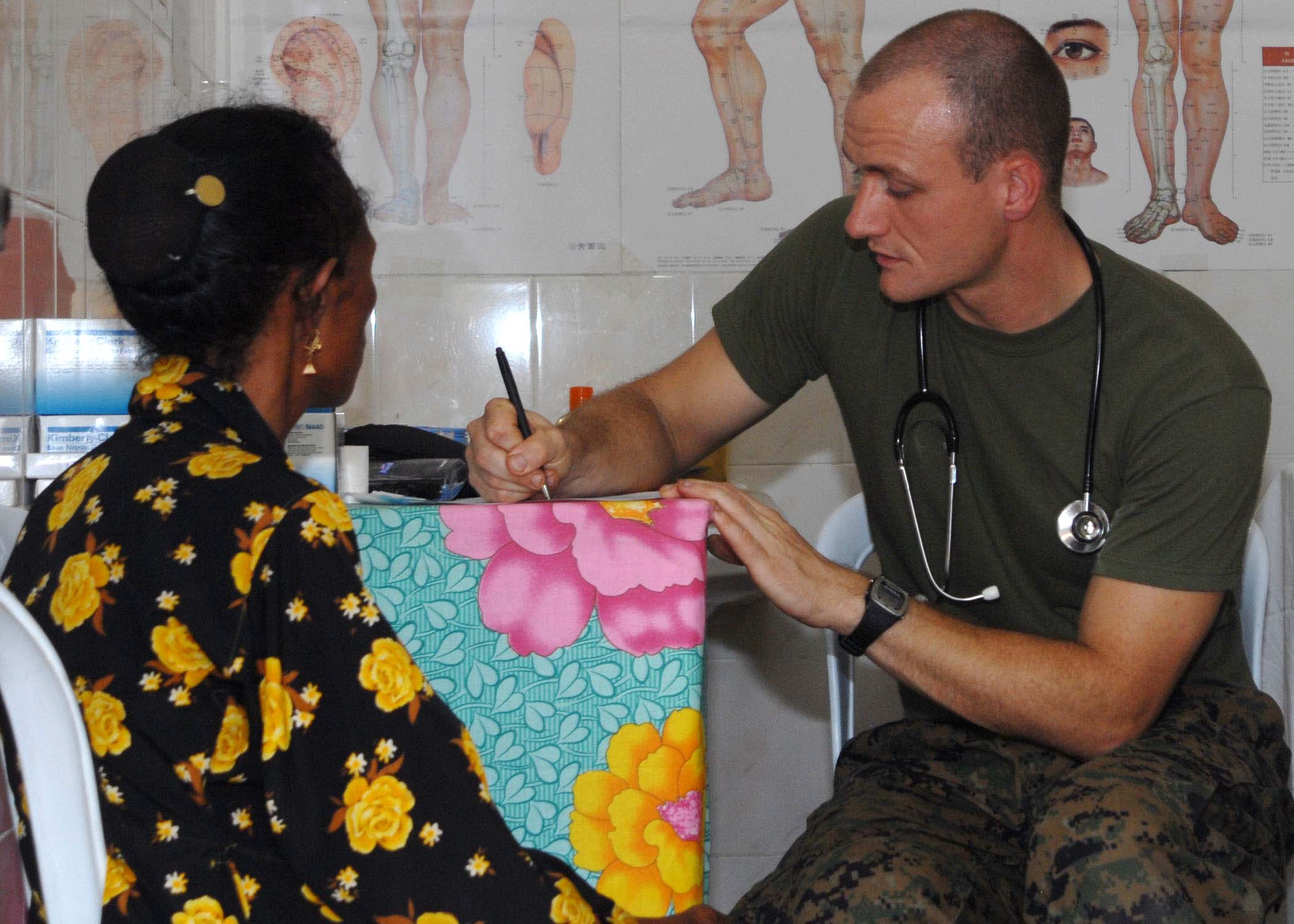 MAUBARA, Timor-Leste (Oct. 16, 2009) Lt. Stephen Zanoni conducts a medical interview with a patient during a medical civic action program supporting Marine Exercise (MAREX) 2009. Sailors and Marines from the Bonhomme Richard Amphibious Ready Group and the 11th Marine Expeditionary Unit (11th MEU) are participating in MAREX, a multilateral exercise promoting theater security cooperation through civic action programs and training with the Timor-Leste and Australian militaries. (U.S. Navy photo by Lt. j.g. Timothy Hawkins/Released)